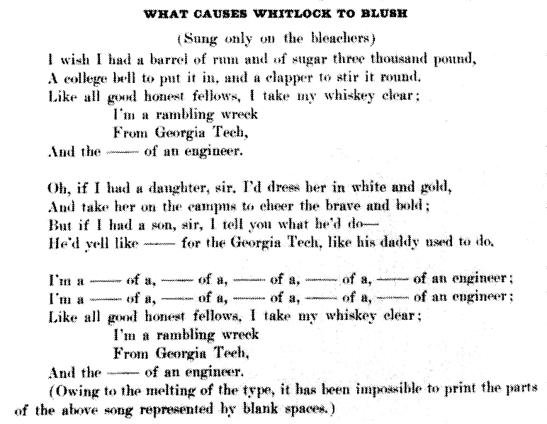 Description: The lyrics of Ramblin' Wreck from Georgia Tech, Georgia Tech's fight song.